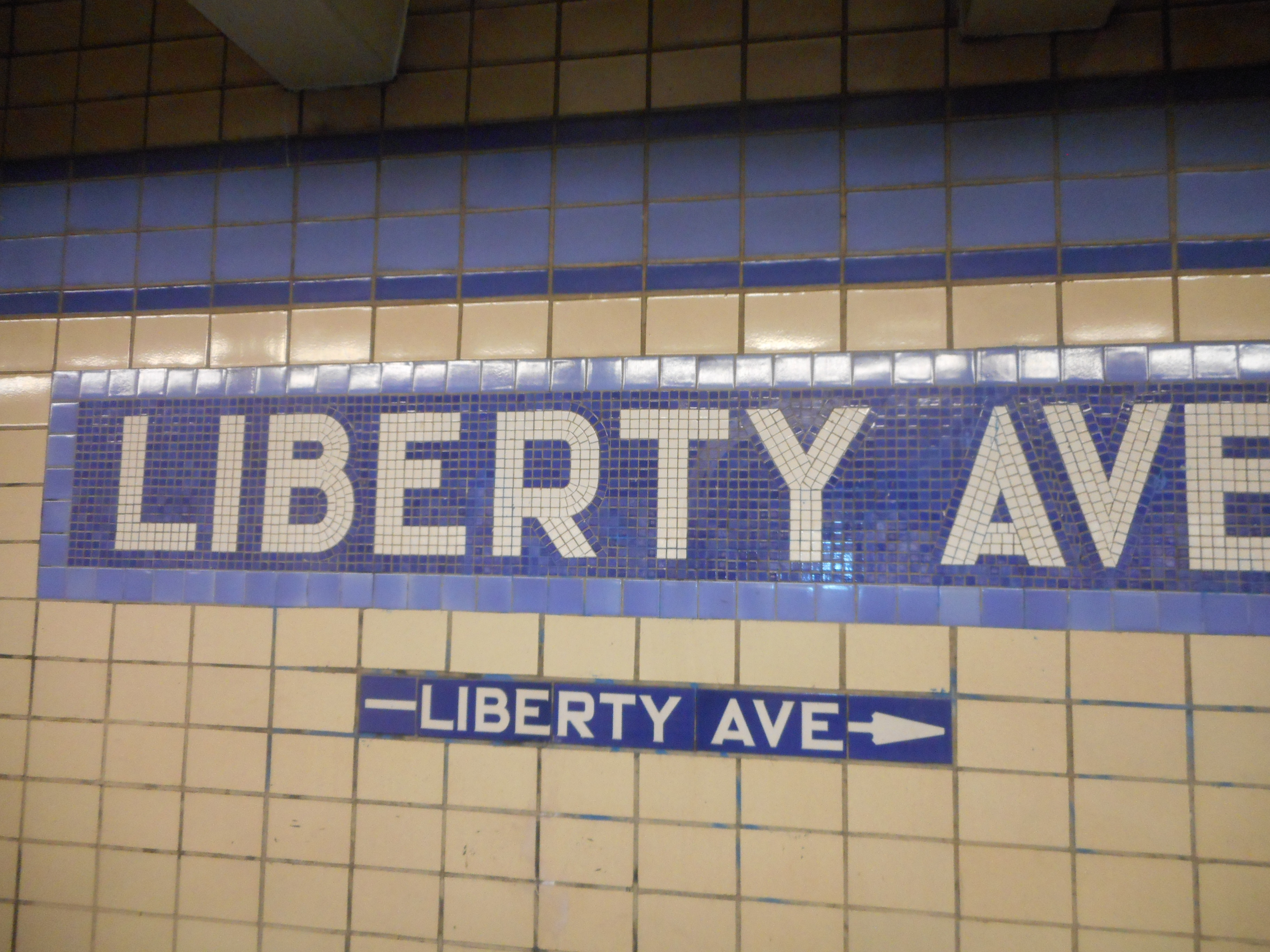 Standard full-size IND mosaic, with a smaller directional mosaic on the wall of the Euclid Avenue-bound platform of the Liberty Avenue Subway station on the IND Fulton Street Line in the East New York section of Brooklyn, New York City.